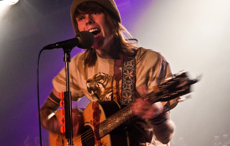 Chris Drew 2012